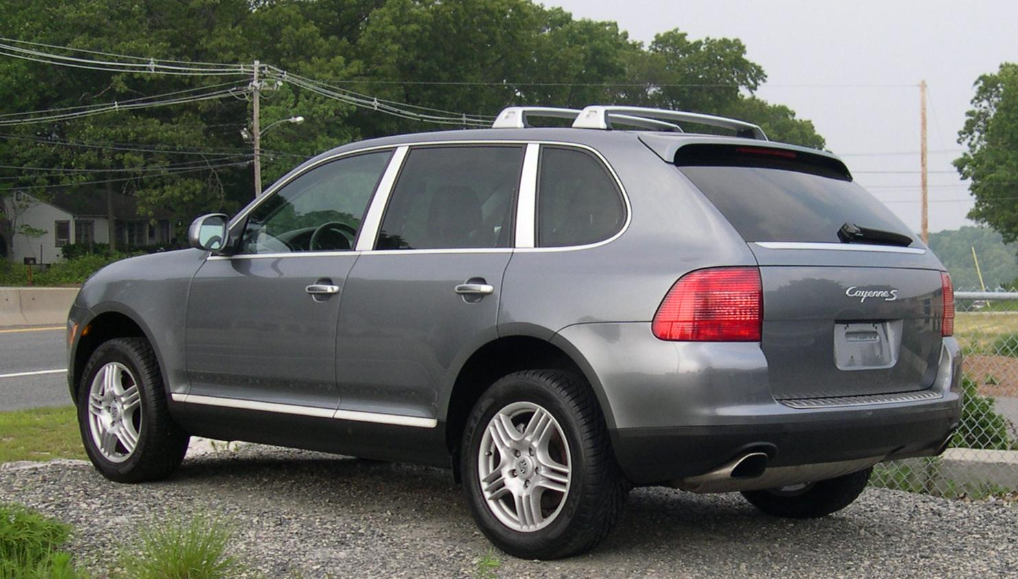 2004 Porsche Cayenne S Source: Photo by User:Sfoskett